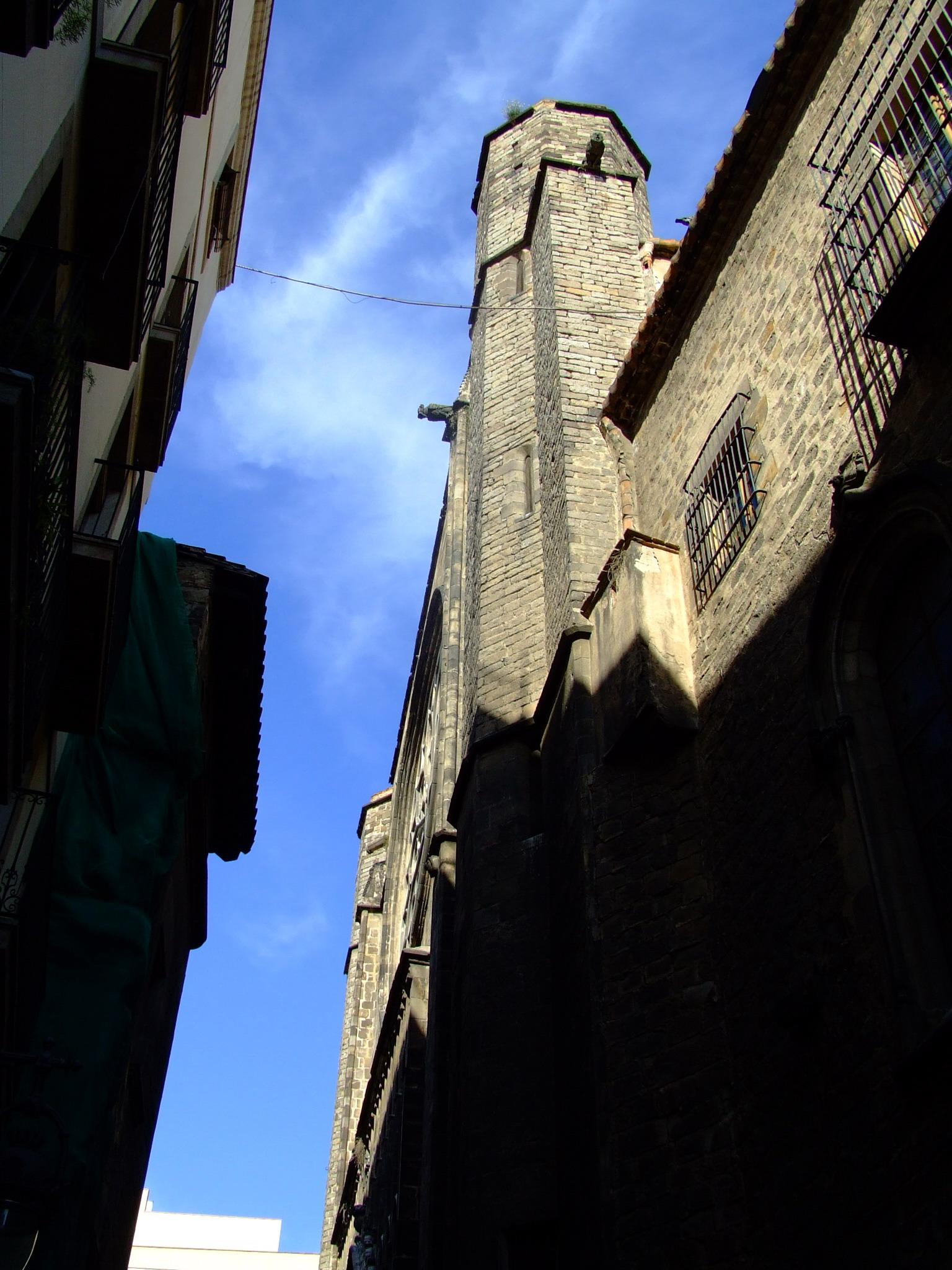 lateral view